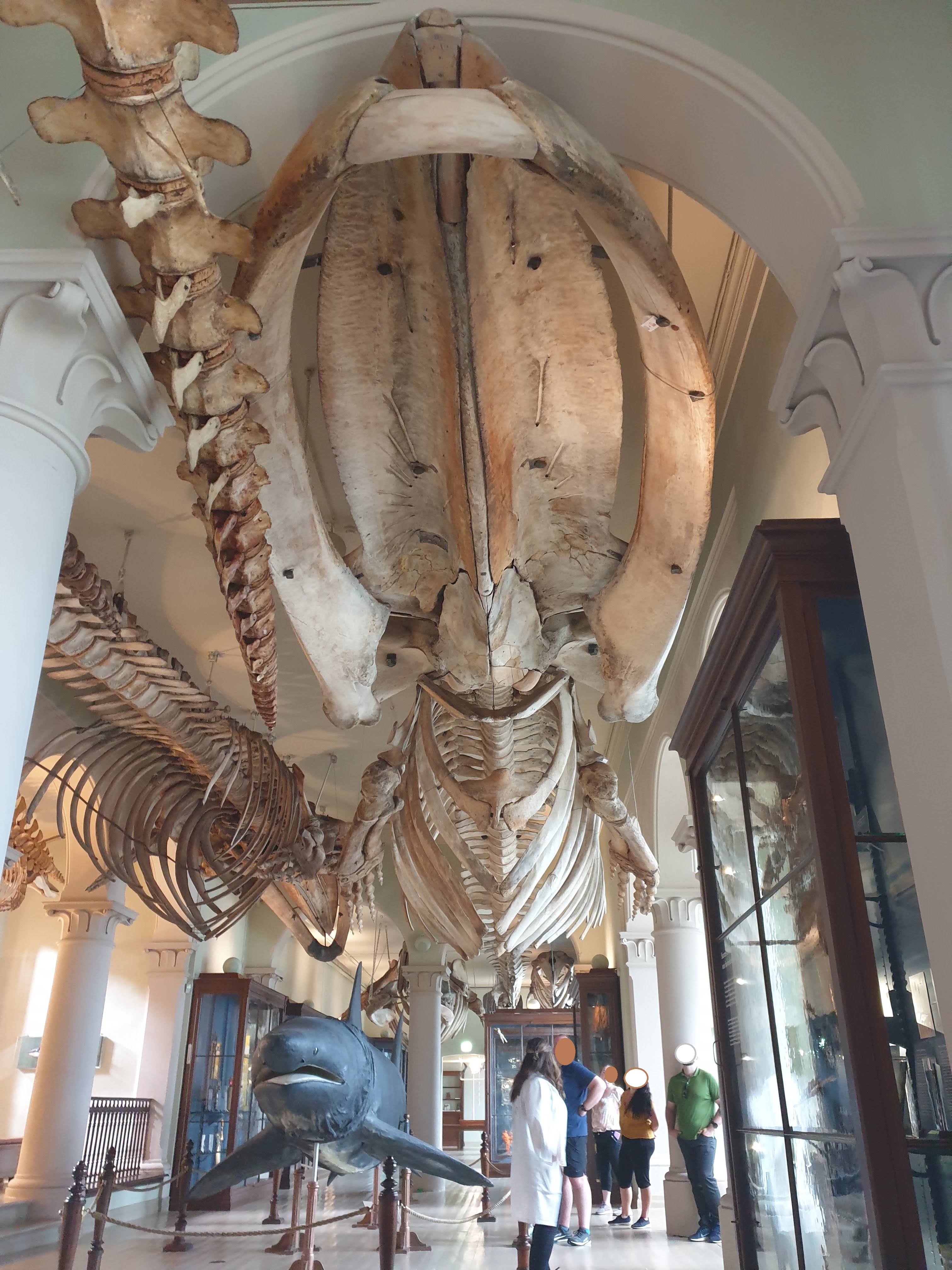 The whale hall in the University Museum of Bergen, natural history exhibition.